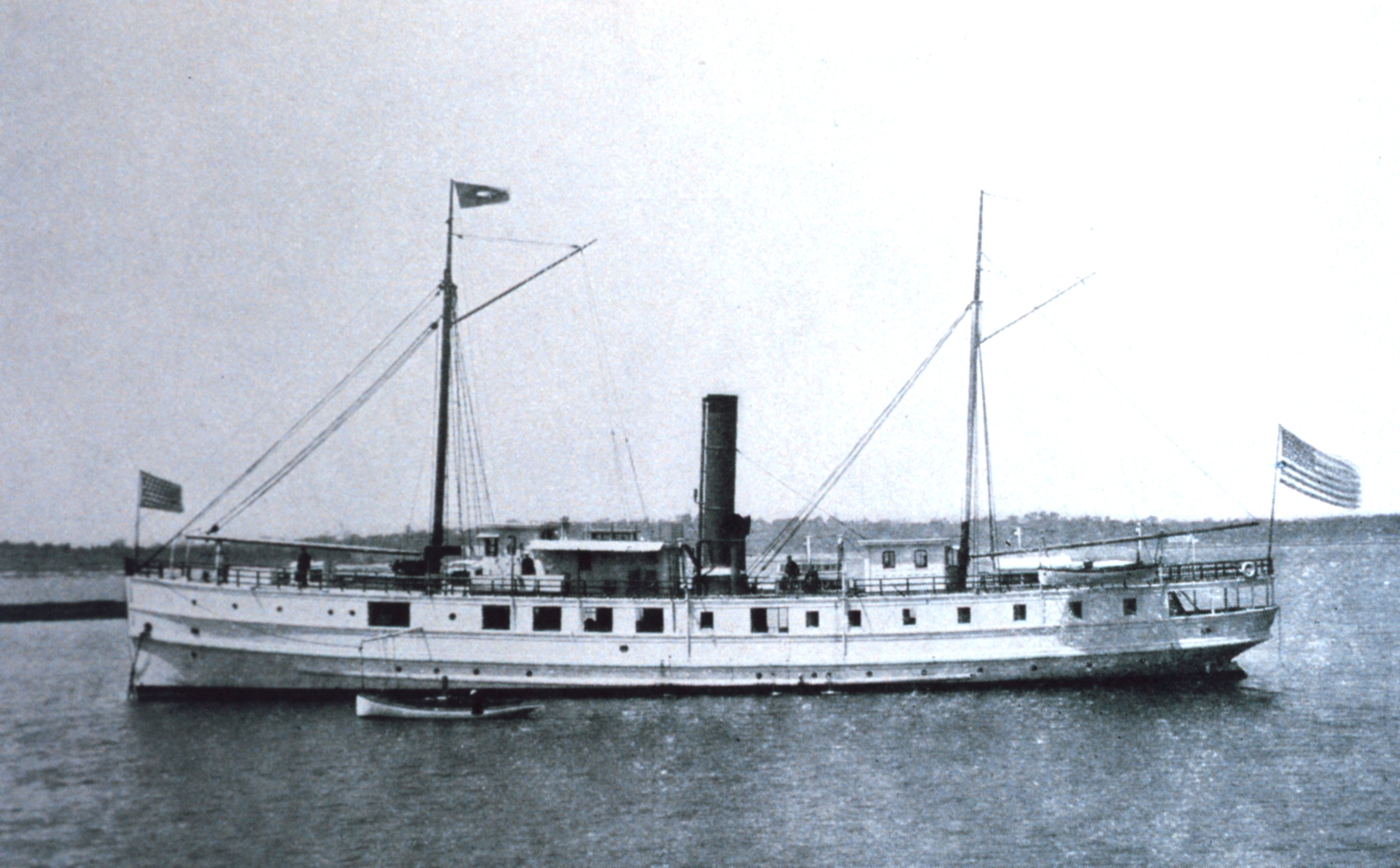 The United States Commission of Fish and Fisheries research ship and floating fish hatchery USFC Fish Hawk